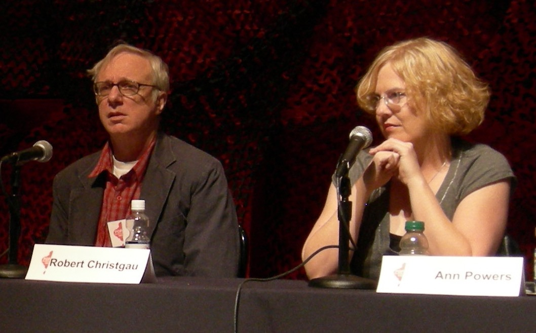 Critic Robert Christgau (Rolling Stone, ex-Village Voice) and Los Angeles Times culture critic Ann Powers at 2007 Pop Conference, Experience Music Project, Seattle, Washington.